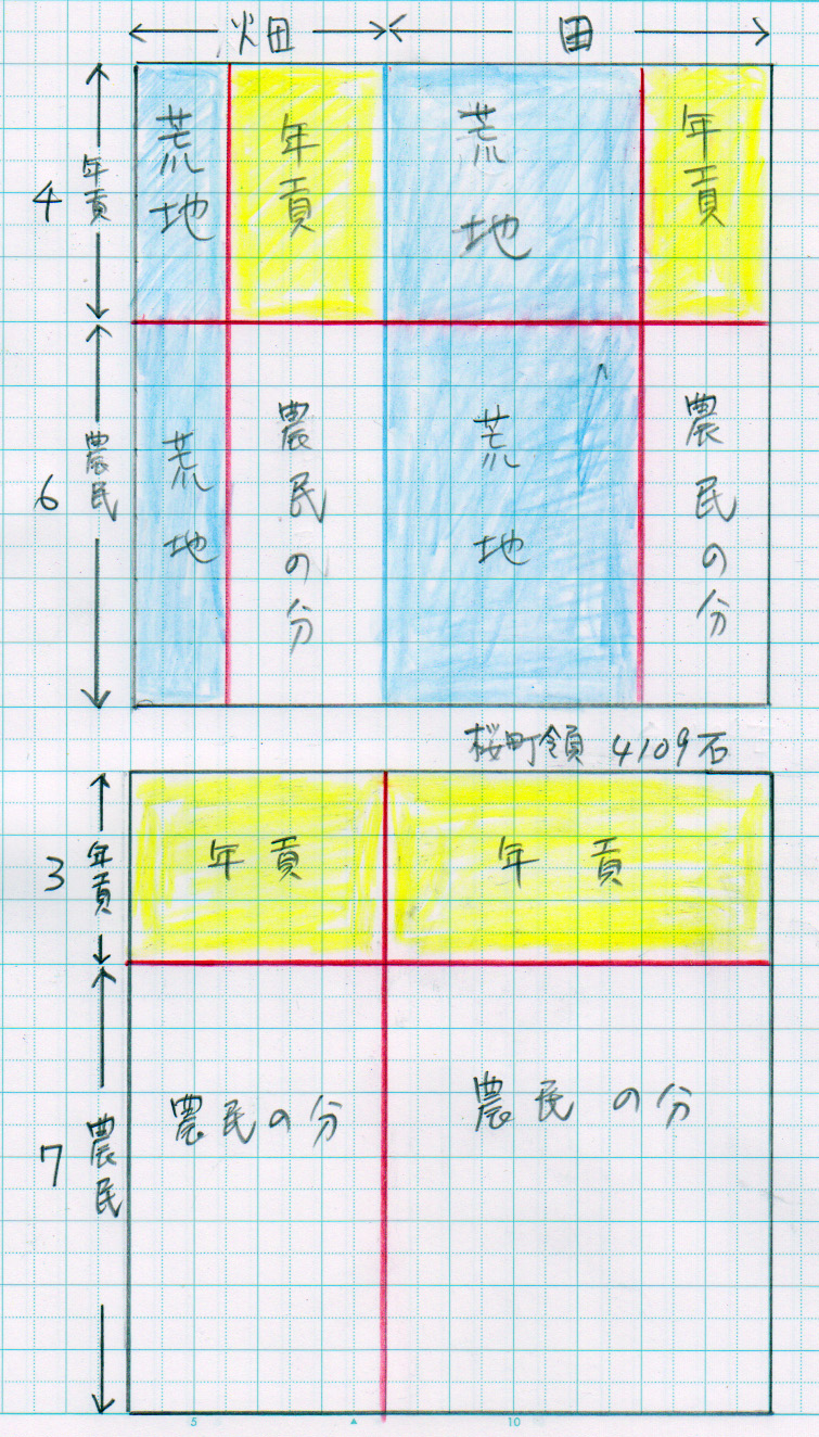 A graaph made by Kinjiro Ninomiya in 1823.